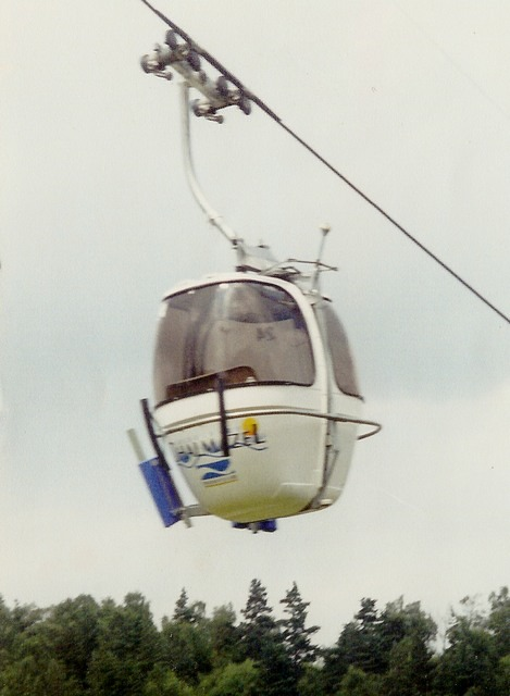 Chalmazel Gondola lift in year 1993